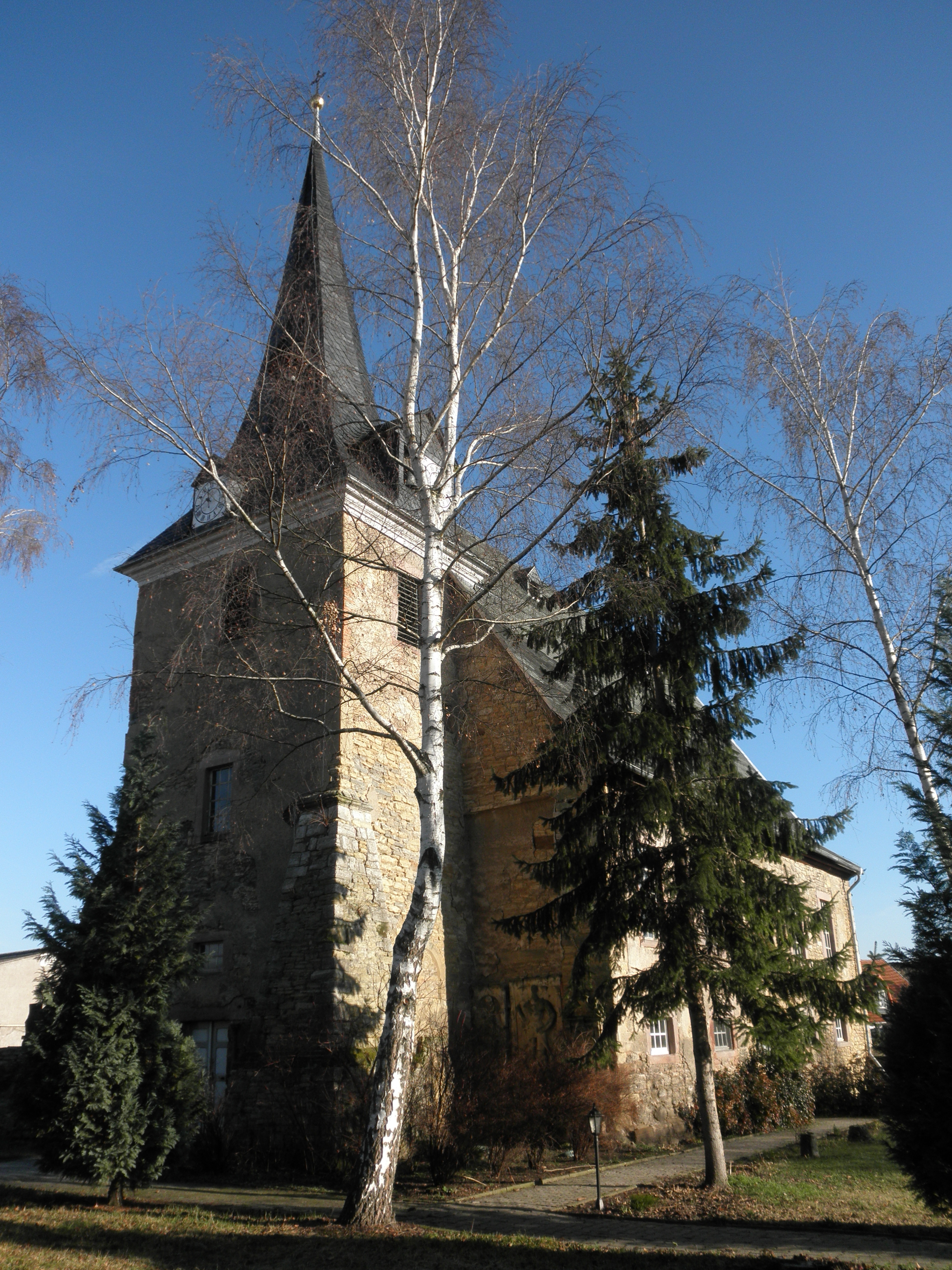 Church in Frohndorf (Sömmerda) in Thuringia